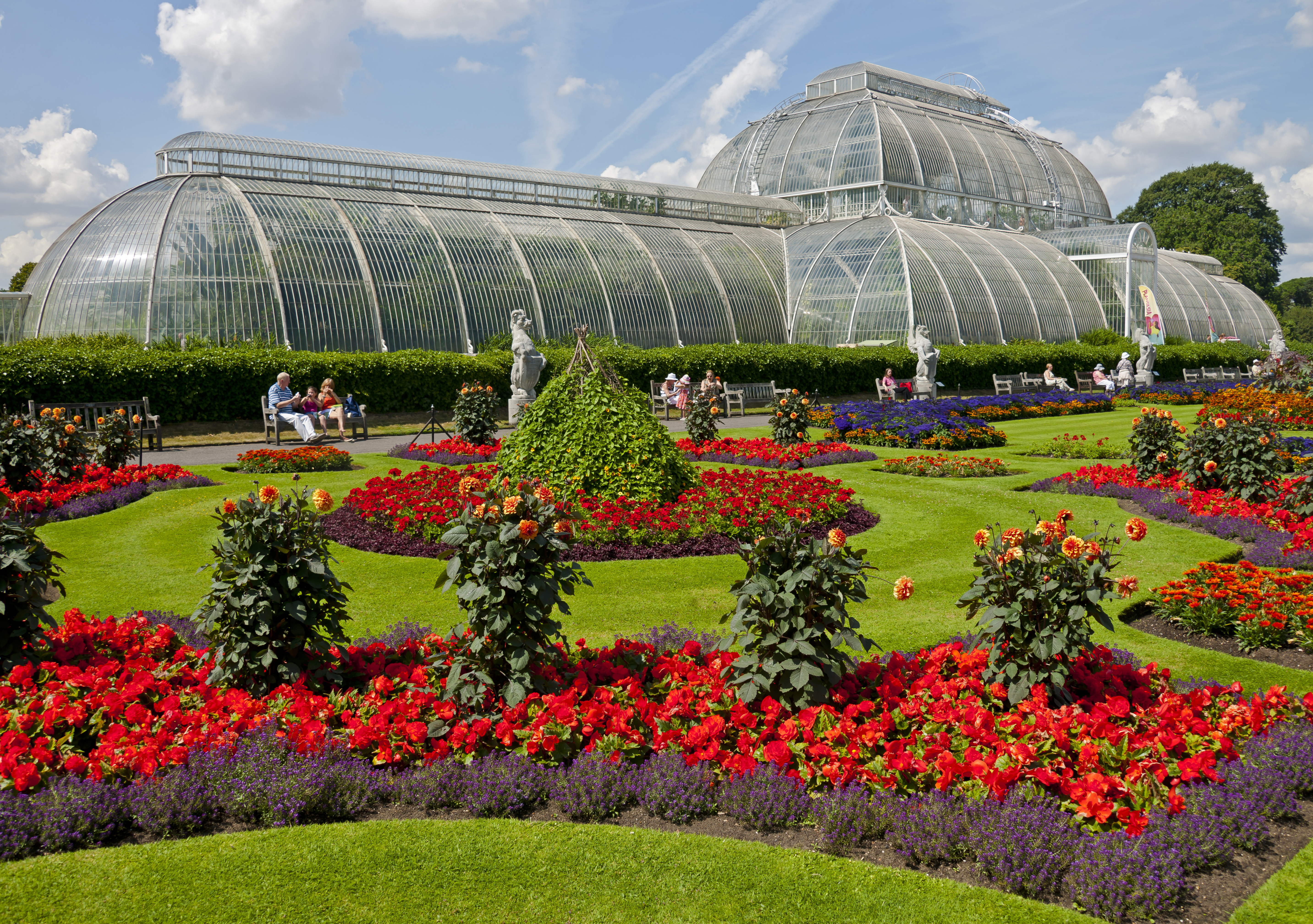 Flowers planted in front of the Palm House at Kew Gardens